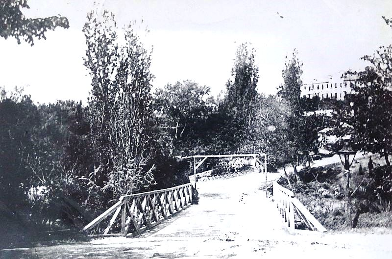 Varna. Photos of the Sea Garden.